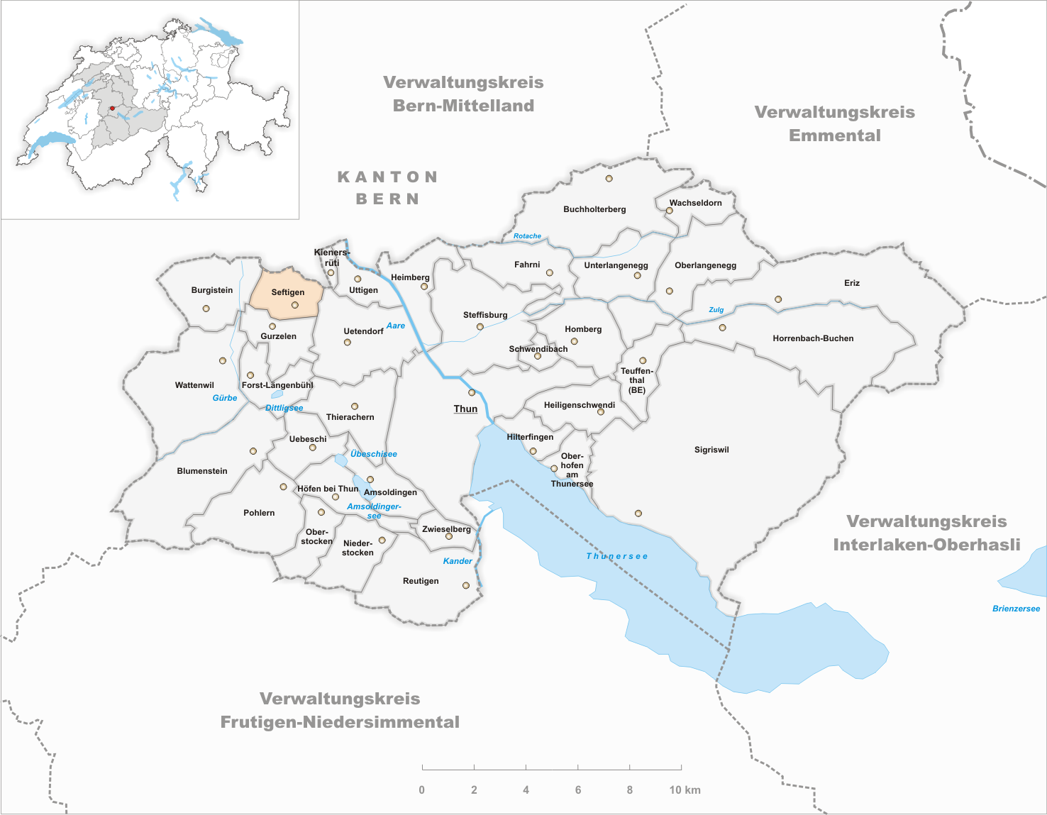 Municipality Seftigen